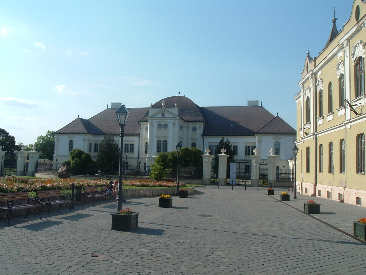 Szécsény, Mansion